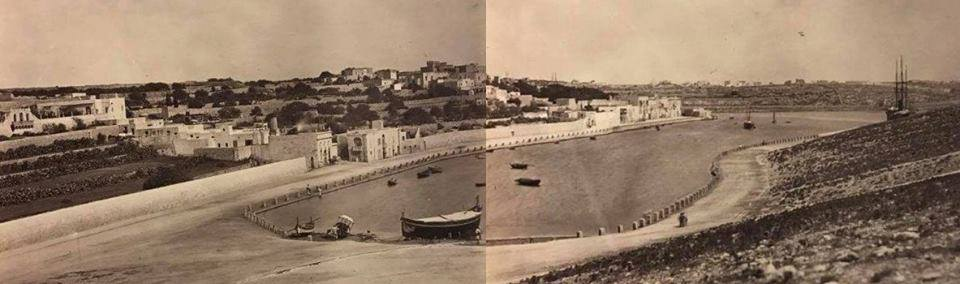 Pietà creek, 1860